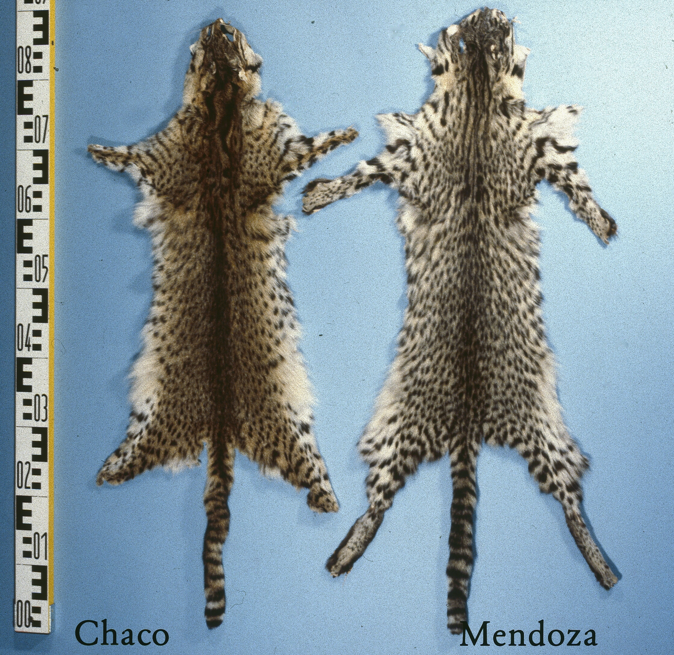 Geoffroy's cat fur skin, Chaco, Mendoza (Leopardus geoffroyi). Fur skin collection, Bundes-Pelzfachschule, Frankfurt/Main, Germany